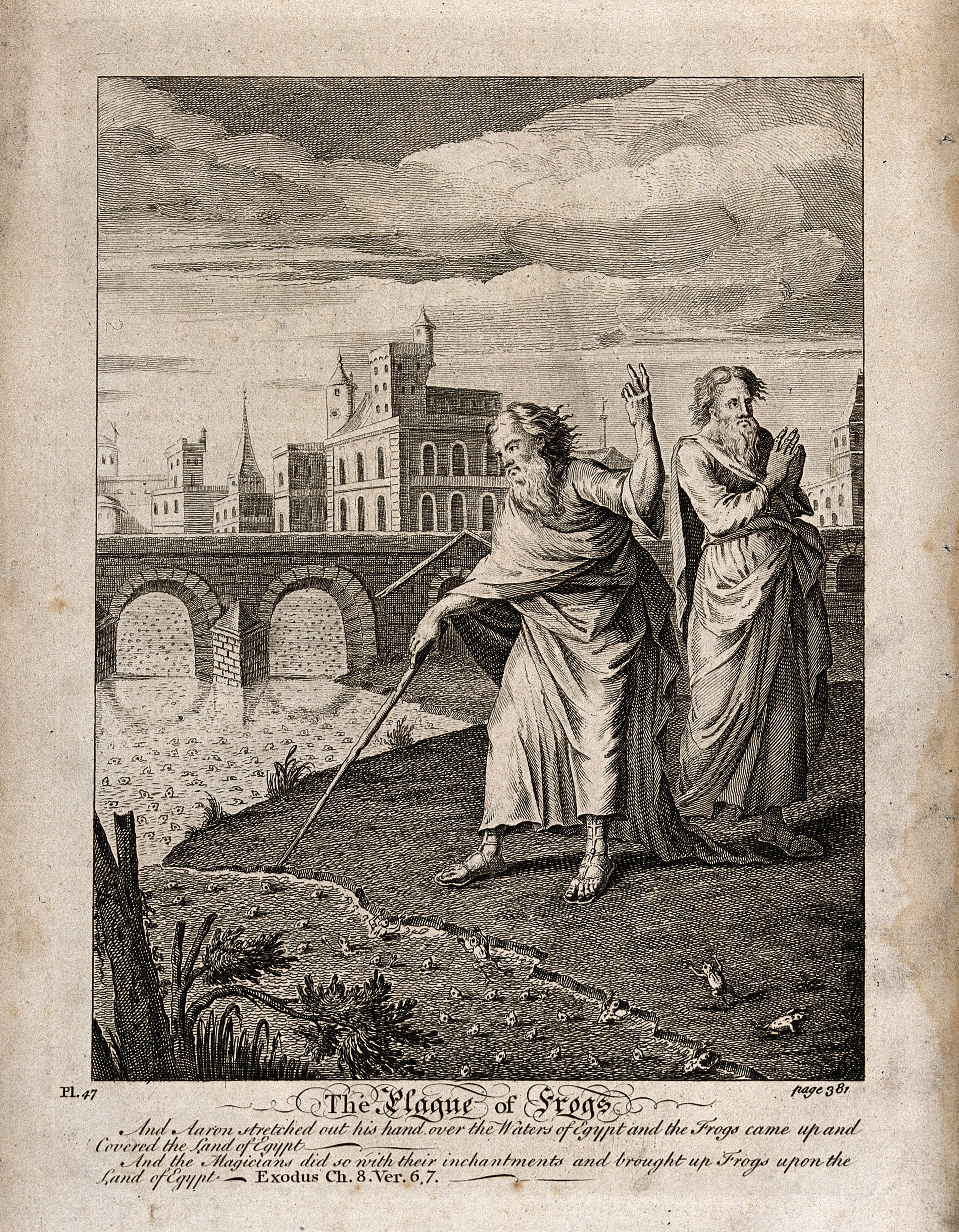 Aaron points his rod at the river and it begins to flow with frogs. Etching. Iconographic Collections Keywords: Moses; Aaron